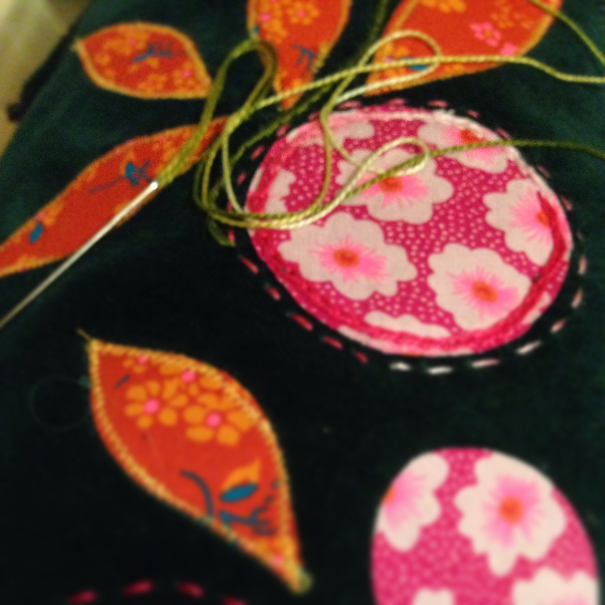 Embroidery, running stitch and textile applications